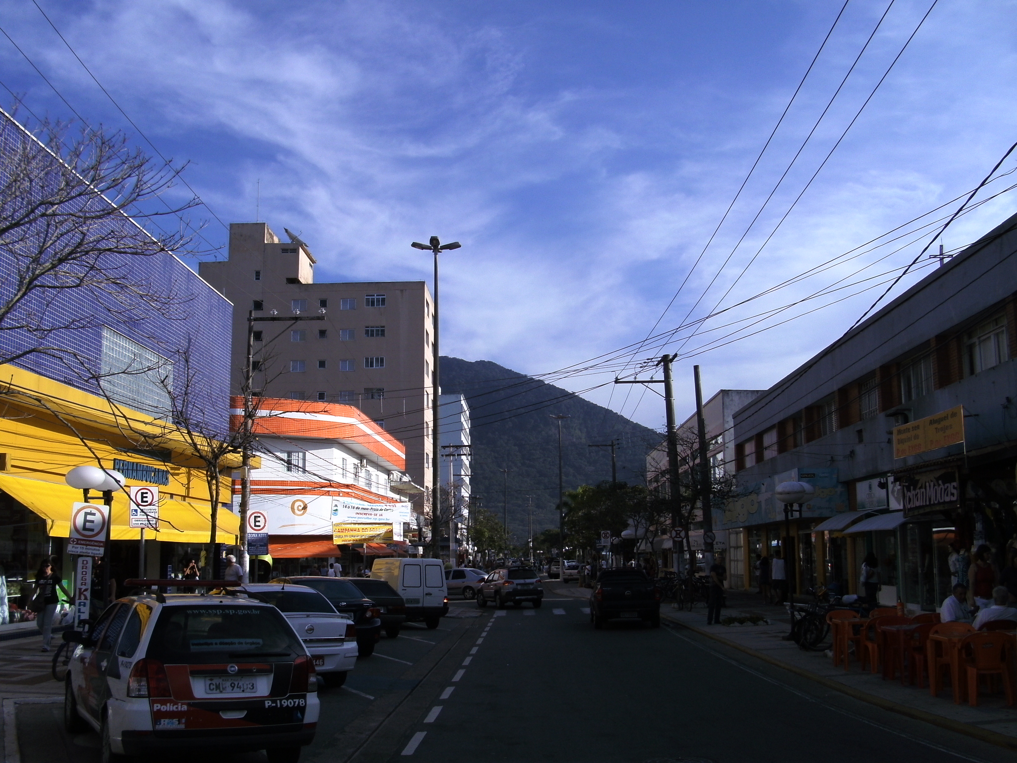 Central area from Peruíbe-Brazil